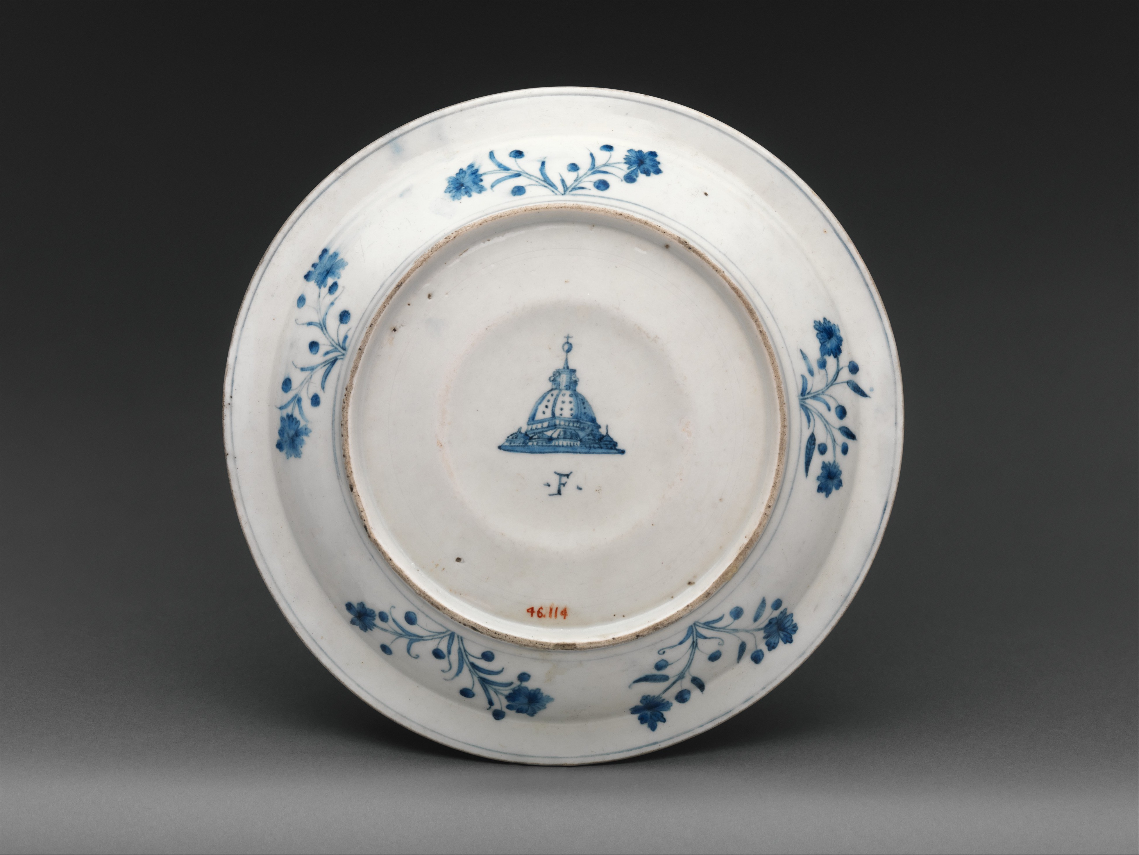 Italian, Florence; Dish; Ceramics-Porcelain